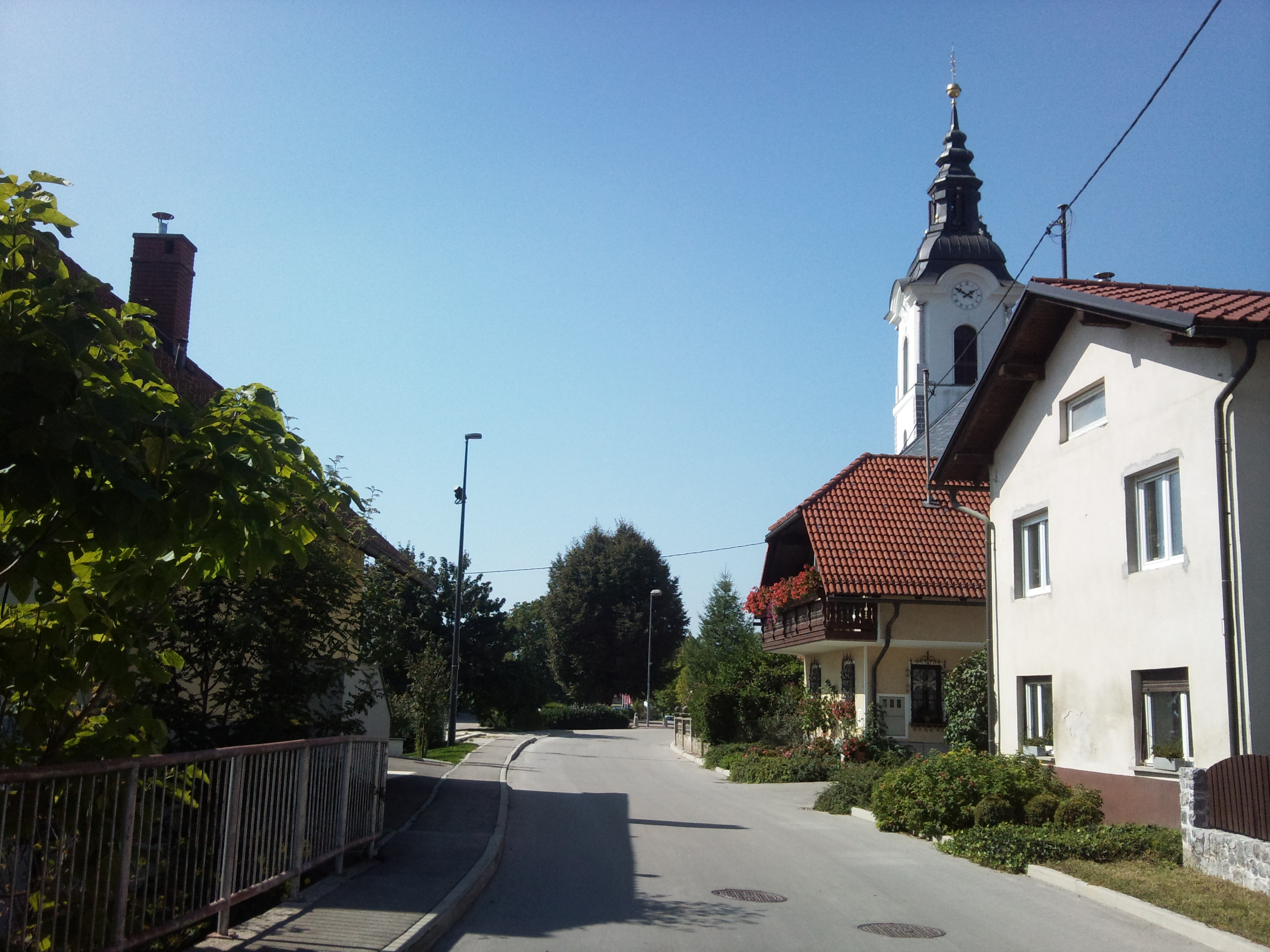 The centre of Dol pri Ljubljani